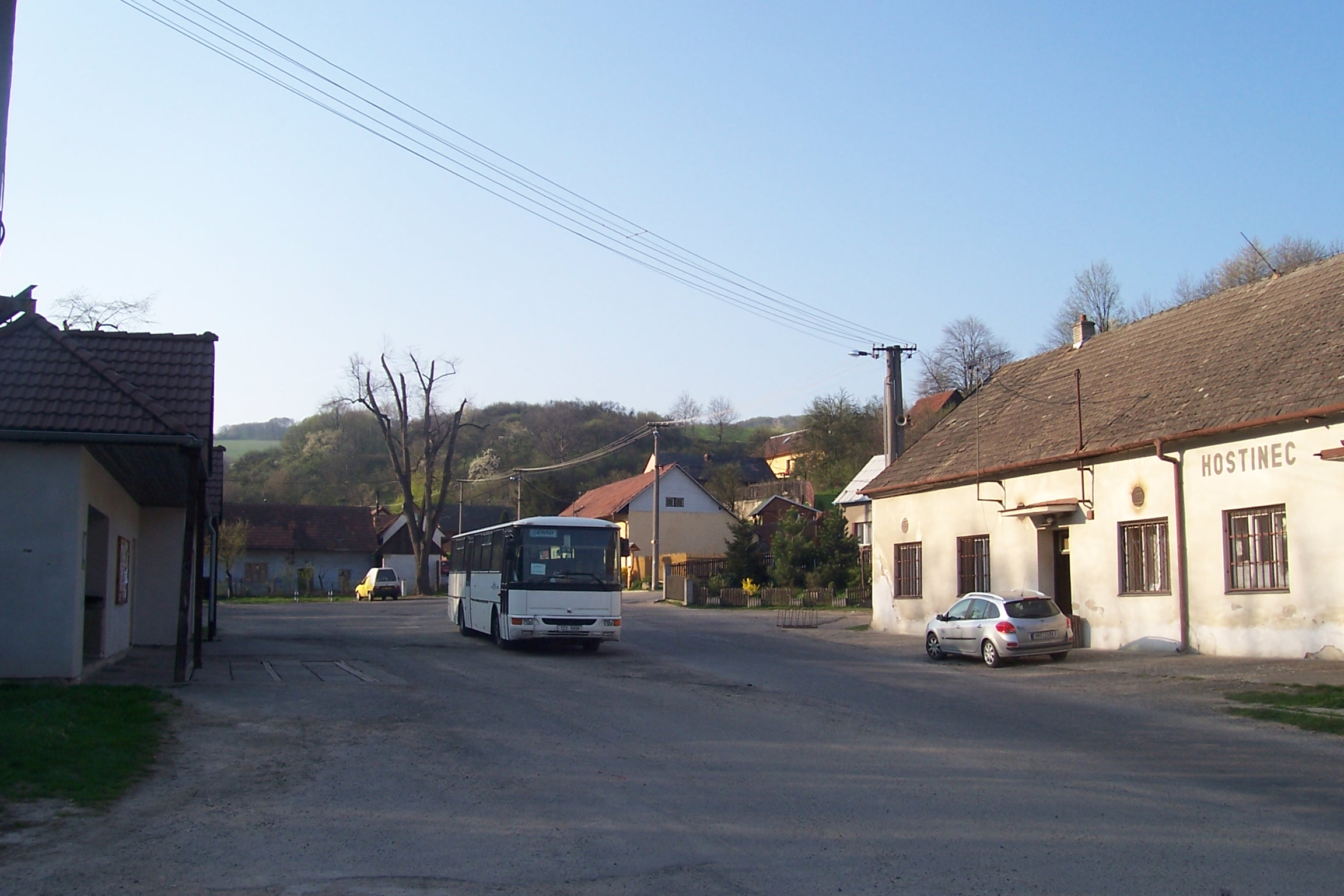 Košíky in Uherské Hradiště District, Czech Republic. Center of the village.